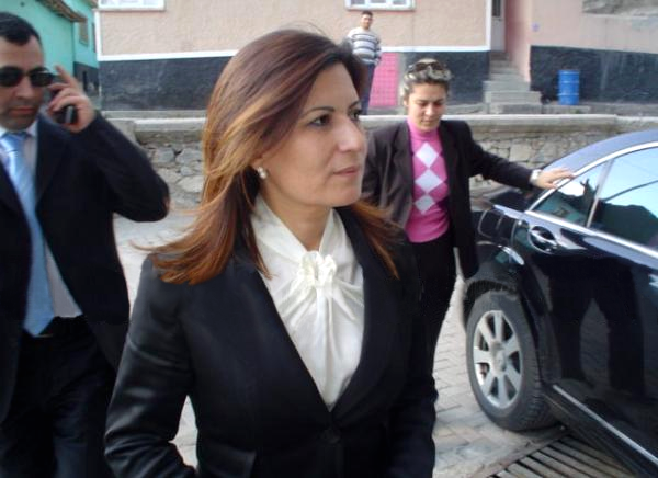 Nimet Çubukçu is a Minister of State of Turkey